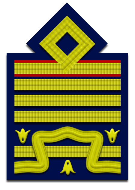 insignia for the sleeves of the rank of general chief of the air force of the Italian Air Force